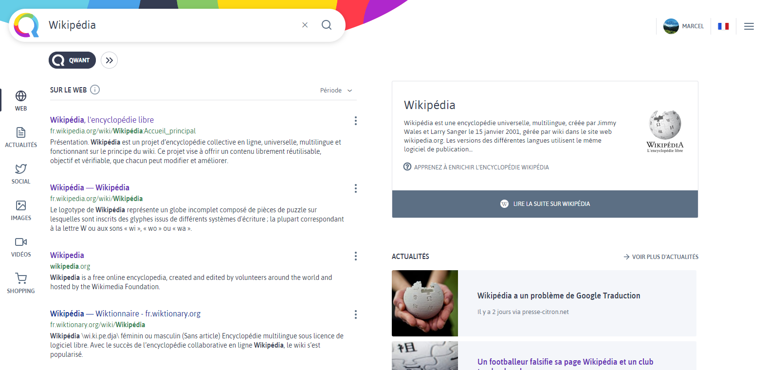 Screenshot showing the graphic design of the search engine Qwant, in its fourth version